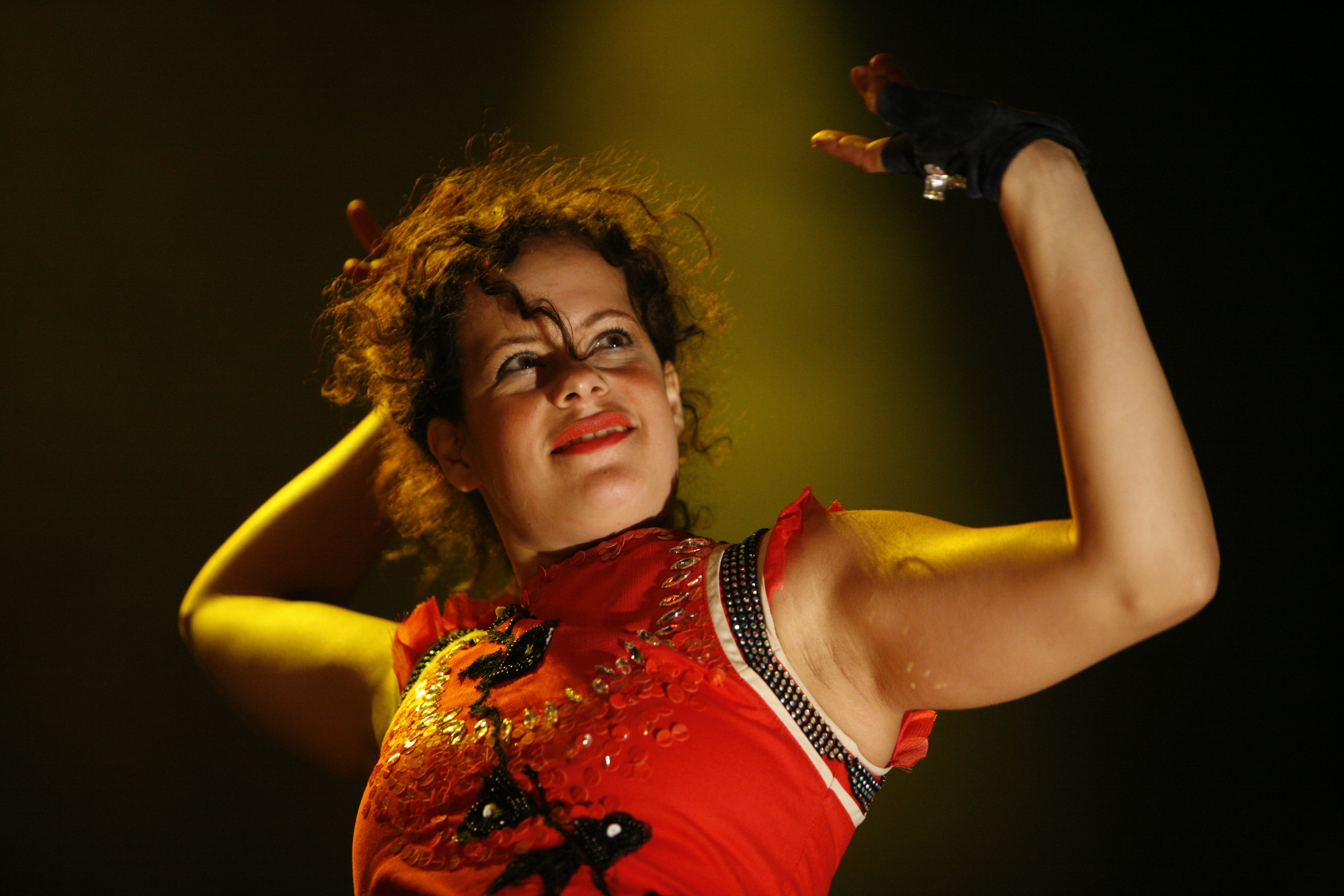 Arcade Fire at the Eurockéennes of 2007.